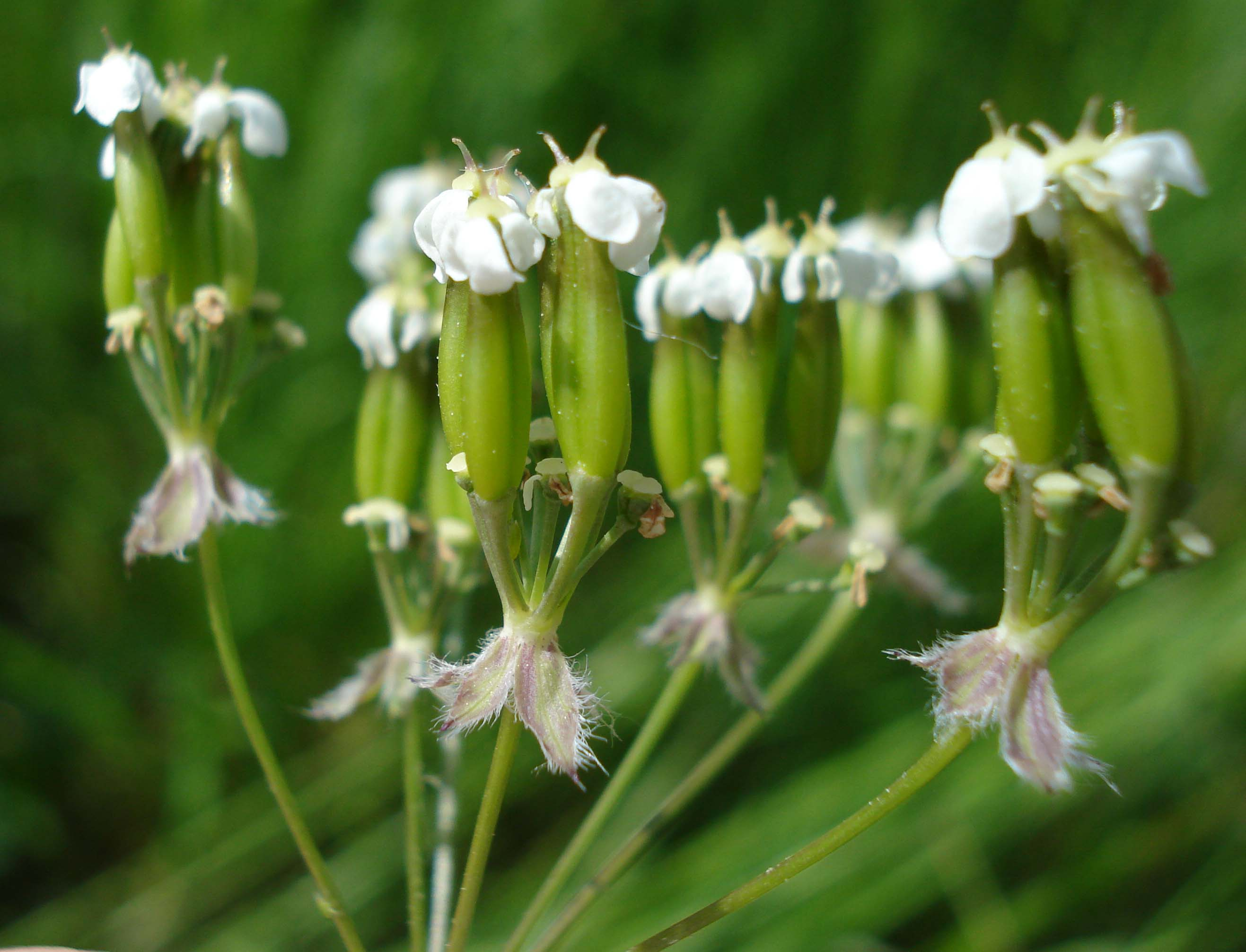 Anthriscus sylvestris (Unterfranken, Germany)